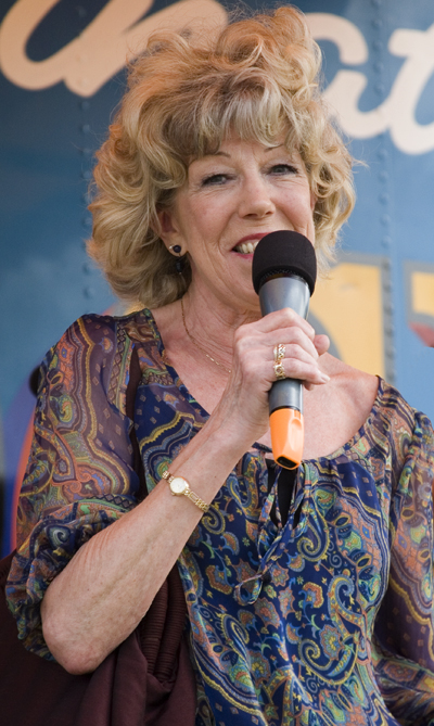 Sue Nicholls pictured by Sean Jones